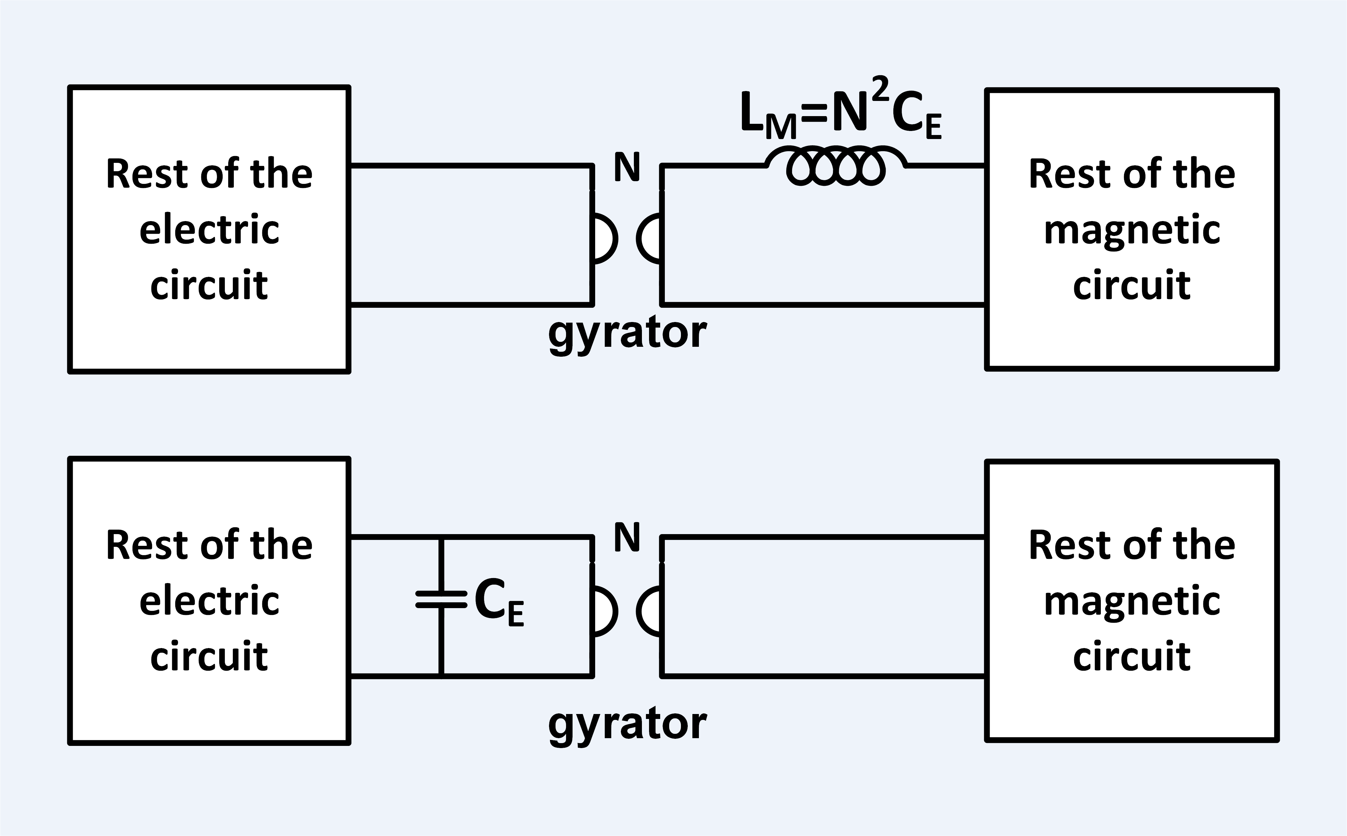 A magnetic inductor transforms to an electric capacitor when the element is moved from the magnetic domain to the electric domain. N is the gyration resistance of the gyrator. N nominally has the dimensions of ohms. An inductor with the dimensions of henrys in the magnetic domain transforms to a capacitor with units of farads in the electric domain.